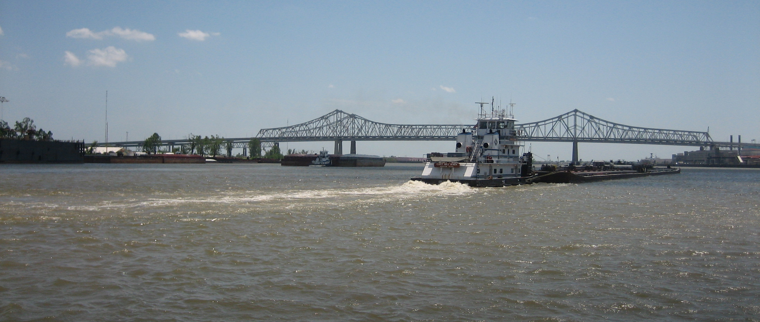 New Orleans: Tugs and barges in the Mississippi, Crescent City Connection Bridge. Photo by Infrogmation